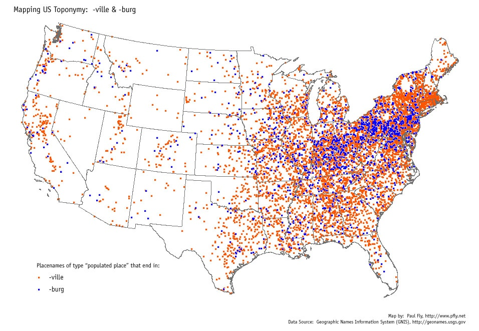 Place names of "populated places" (GNIS defined) that end in -ville and -burg(h).